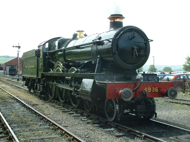 Toddington Station, 4936 "Kinlet Hall" Another G.W.R. engine at a Gala Weekend.